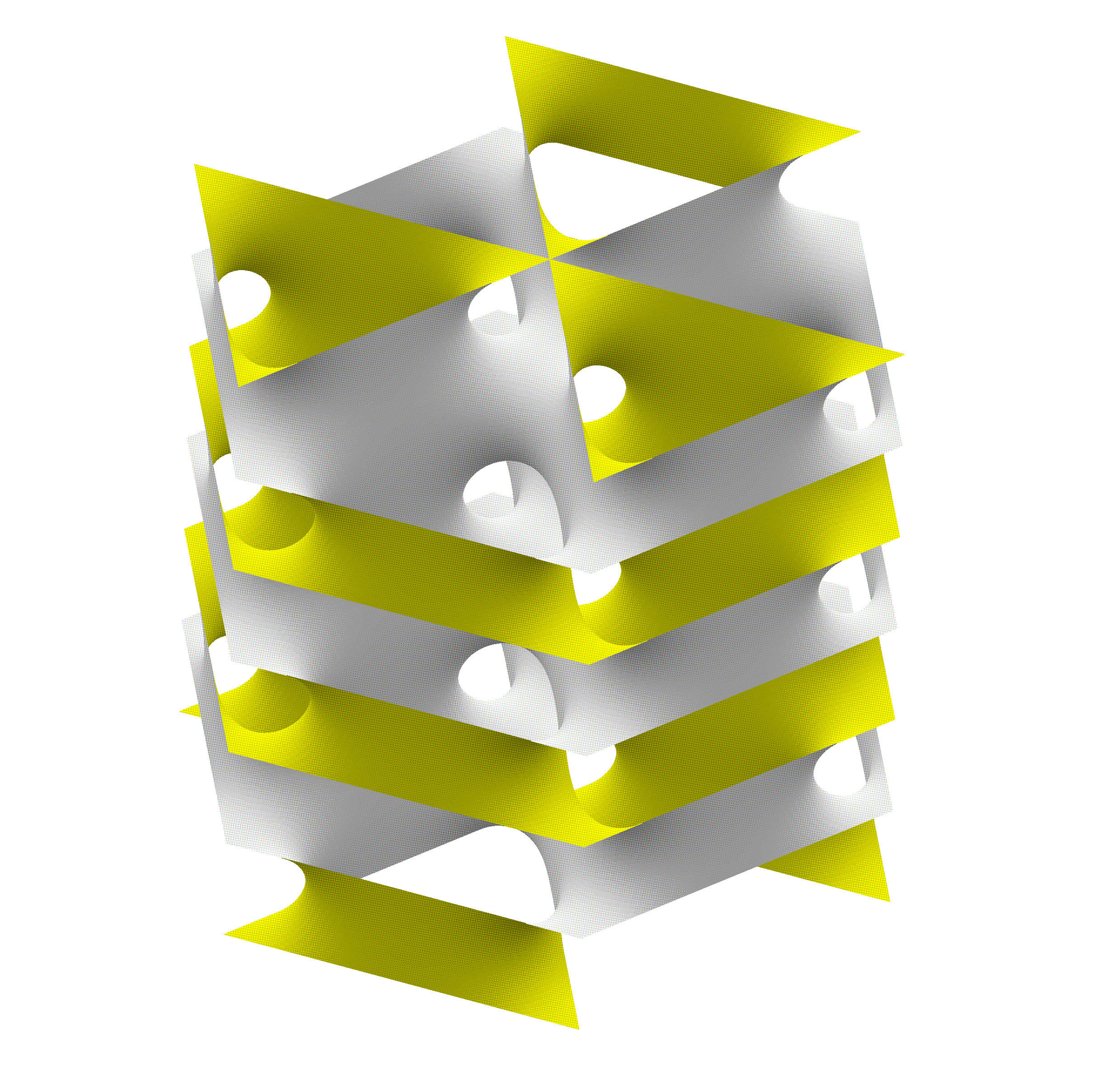 Approximation of the Schwarz H minimal surface generated using Ken Brakke's Surface Evolver program.